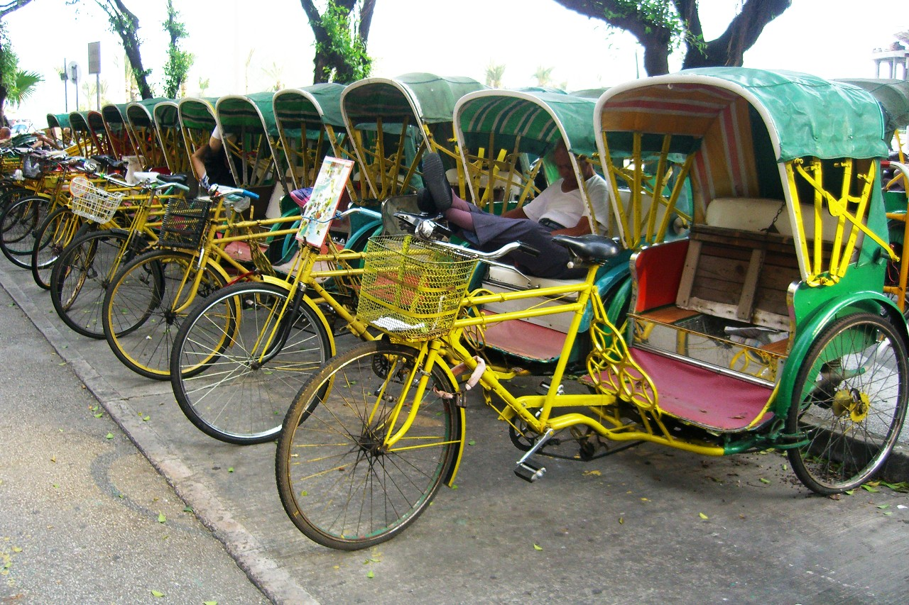 Three-wheel Car of Macau